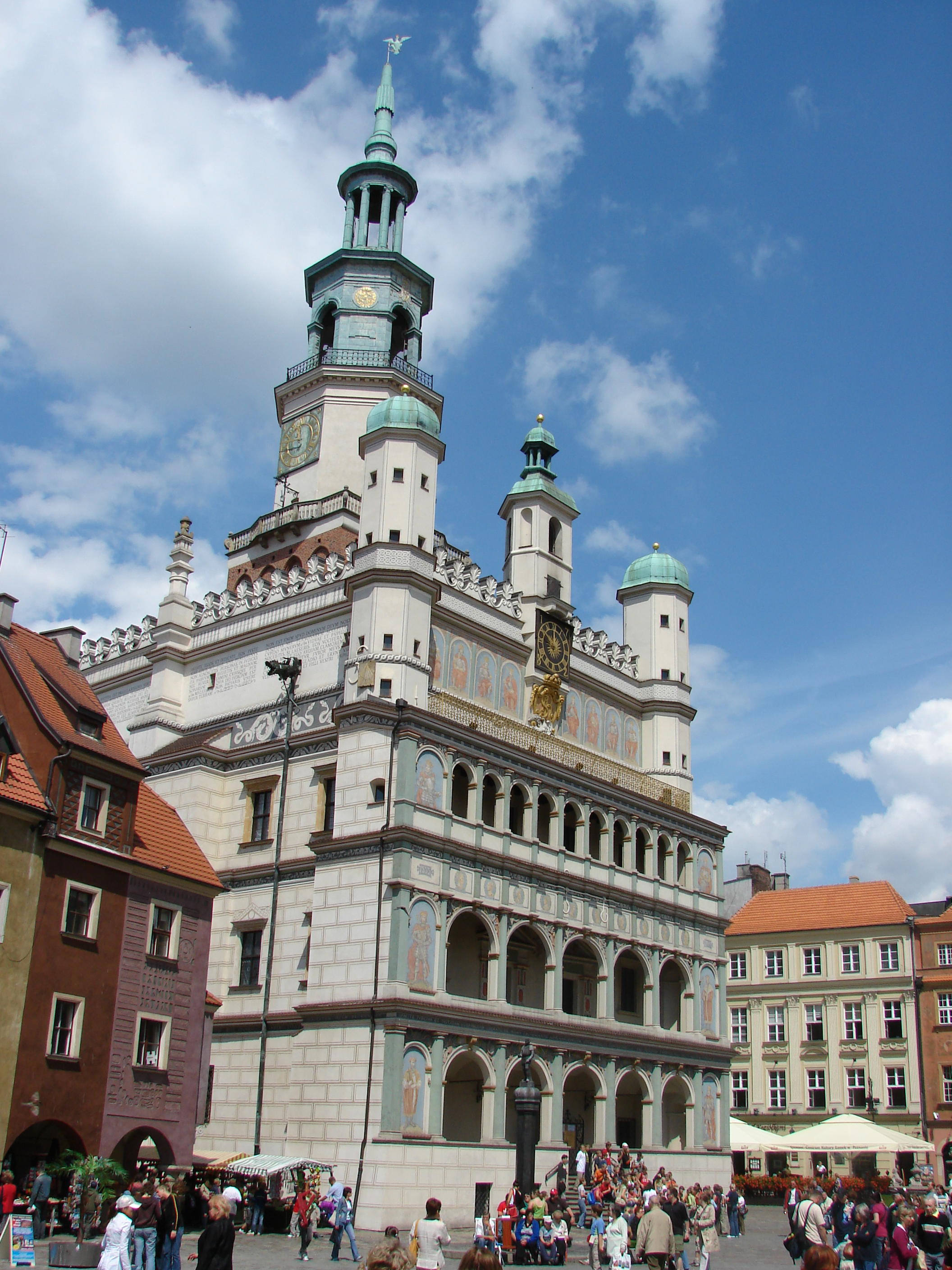 City Hall in Poznań